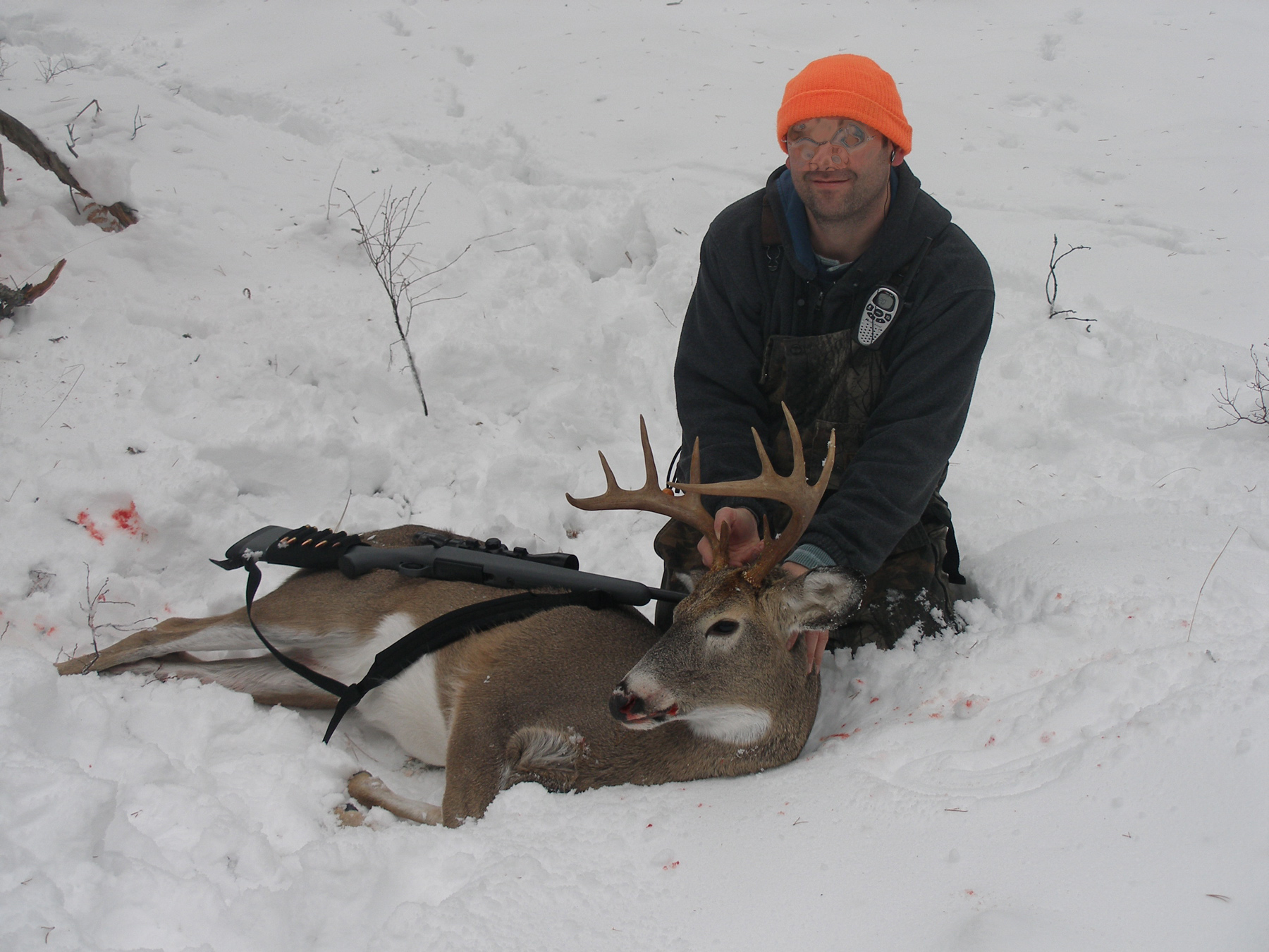 A hunter posing with his 10-point deer. This is a smaller 10-point buck, average at best compared to what they can grow for antlers. The buck was taken with a .30-06 rifle in the Hiawatha National Forest in the upper peninsula of the state of Michigan in the United States.